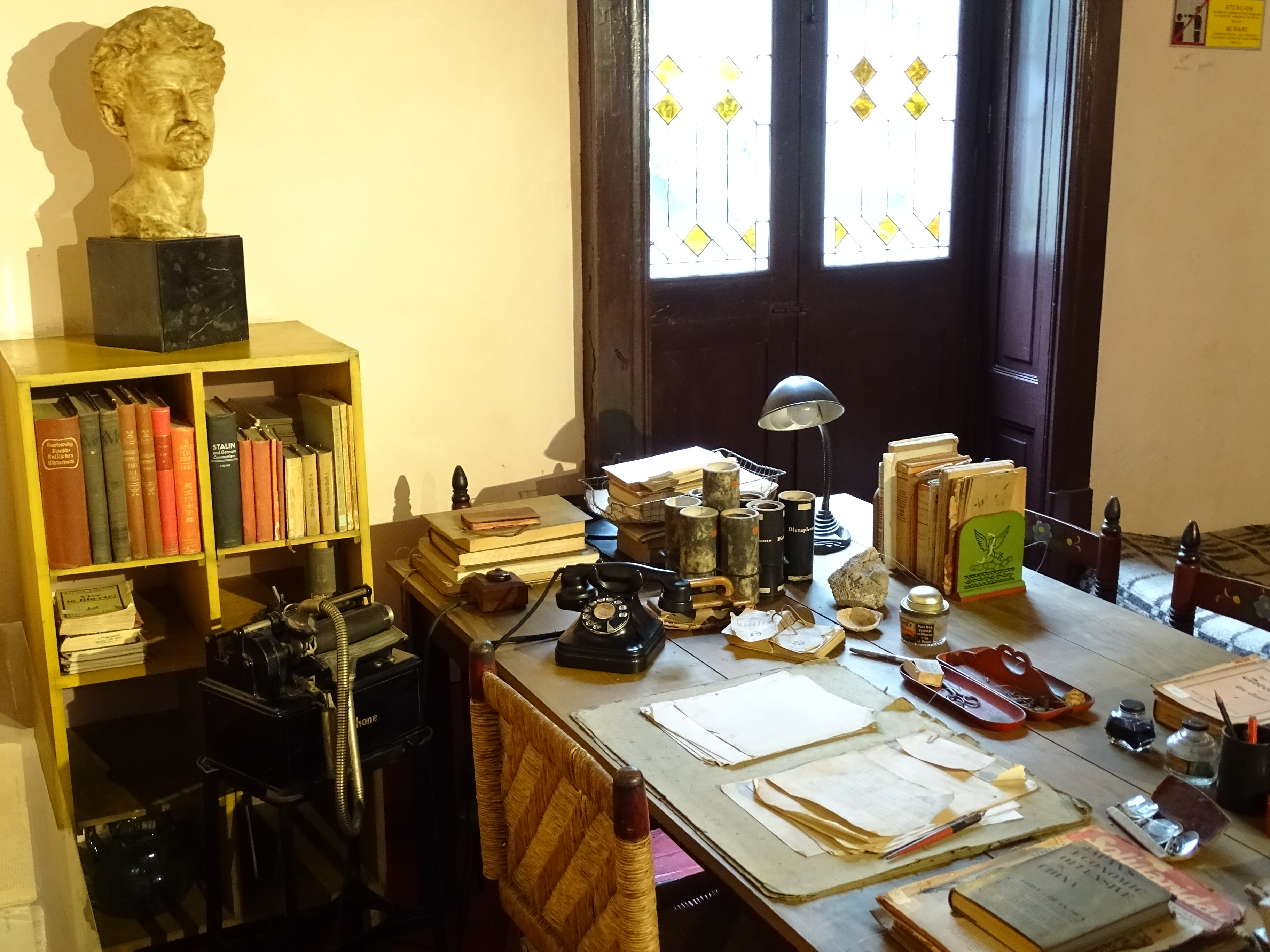 Trotsky Study with Desk Where He Was Mortally Wounded in 1940 - Leon Trotsky Museum - Coyoacan - Mexico City - Mexico